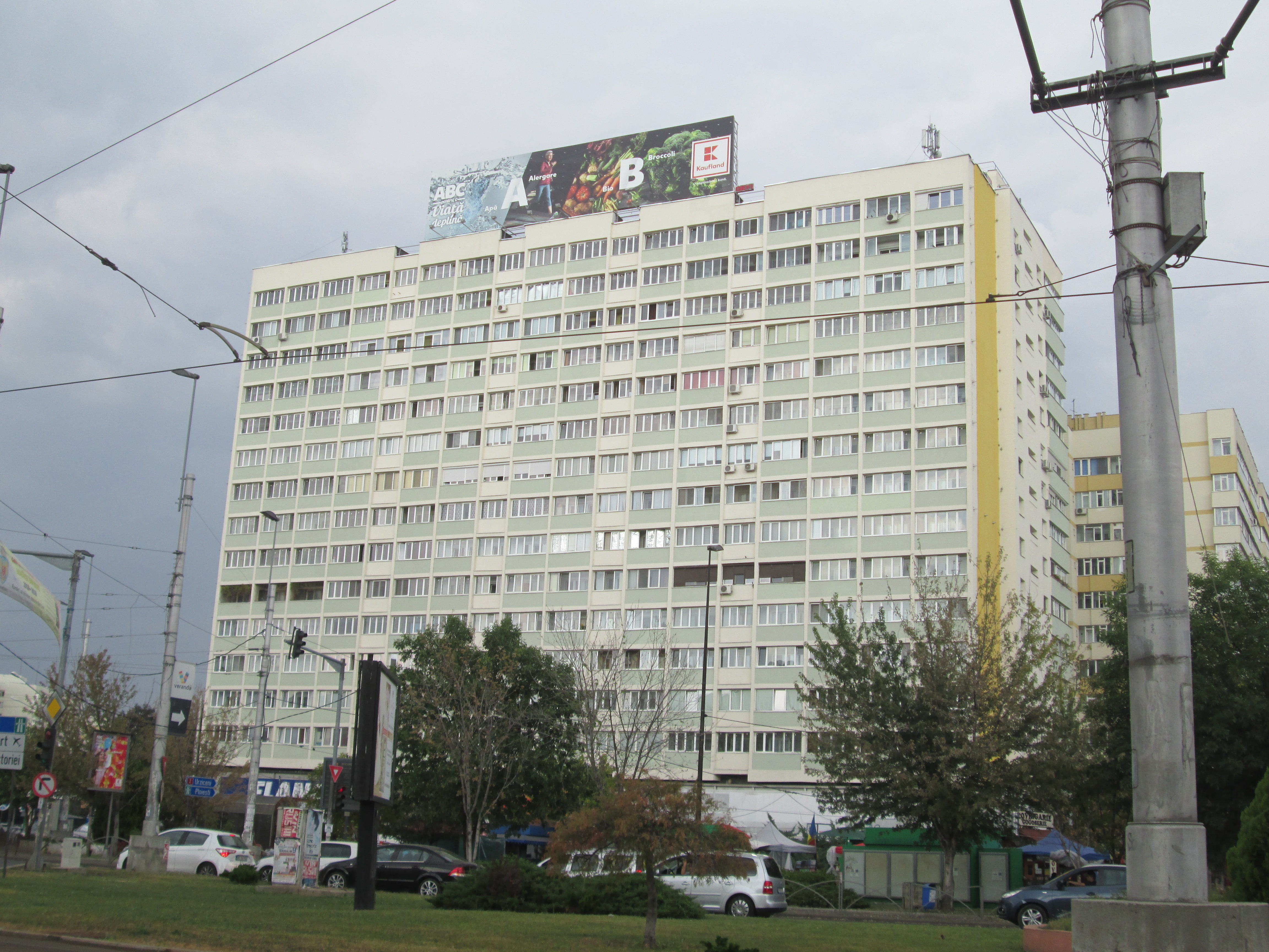 The ALMO housing estate, built in 1975 and renovated in 2017, seen from the Bucur Obor tram stop area. When it was completed, the ALMO housing estate had 2 tower blocks, 2 long apartment blocks (one of them in the background) and the main block building, the one in the foreground, along with the Bucur Obor universal store. ALMO stands for Ansamblul de Locuințe și Magazine Obor (Obor Housing and Shopping Complex).